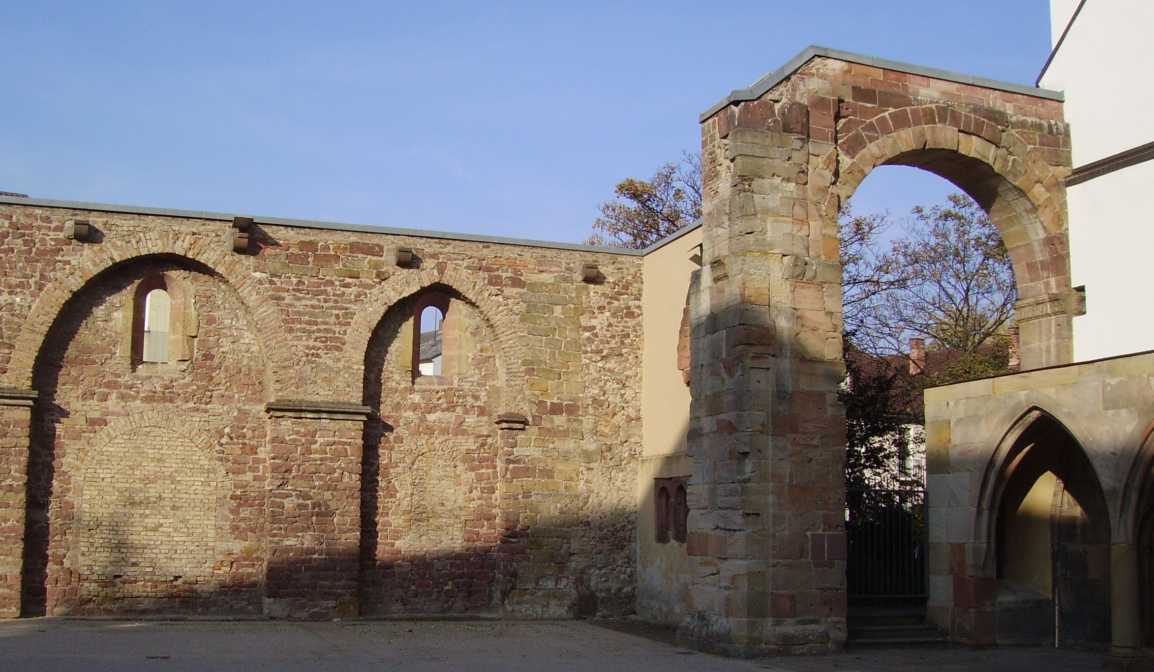 monastery ruines in Frankenthal in Rhineland-Palatinate (Germany)